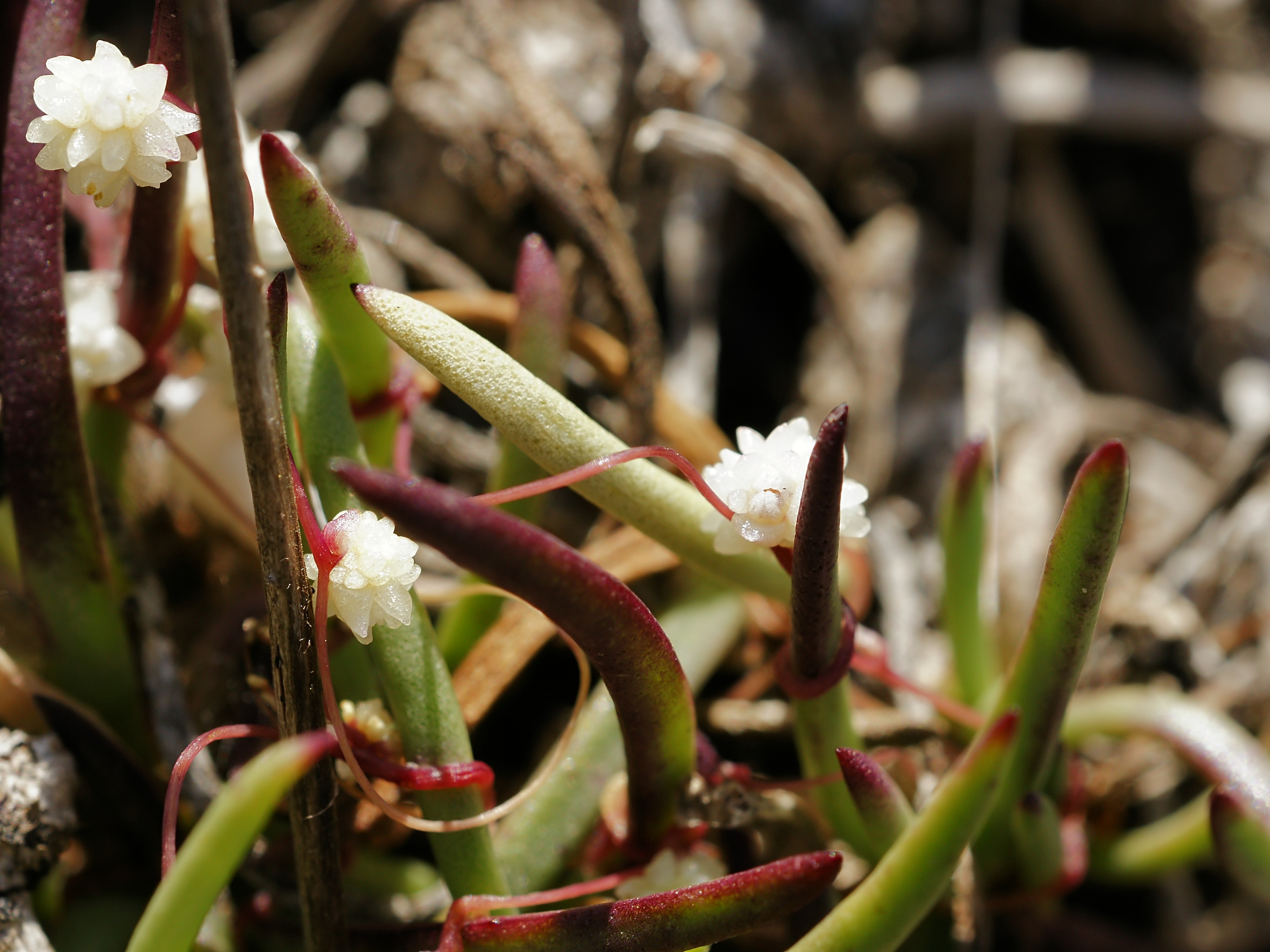 Dodder near Cabras, Sardinia, Italy